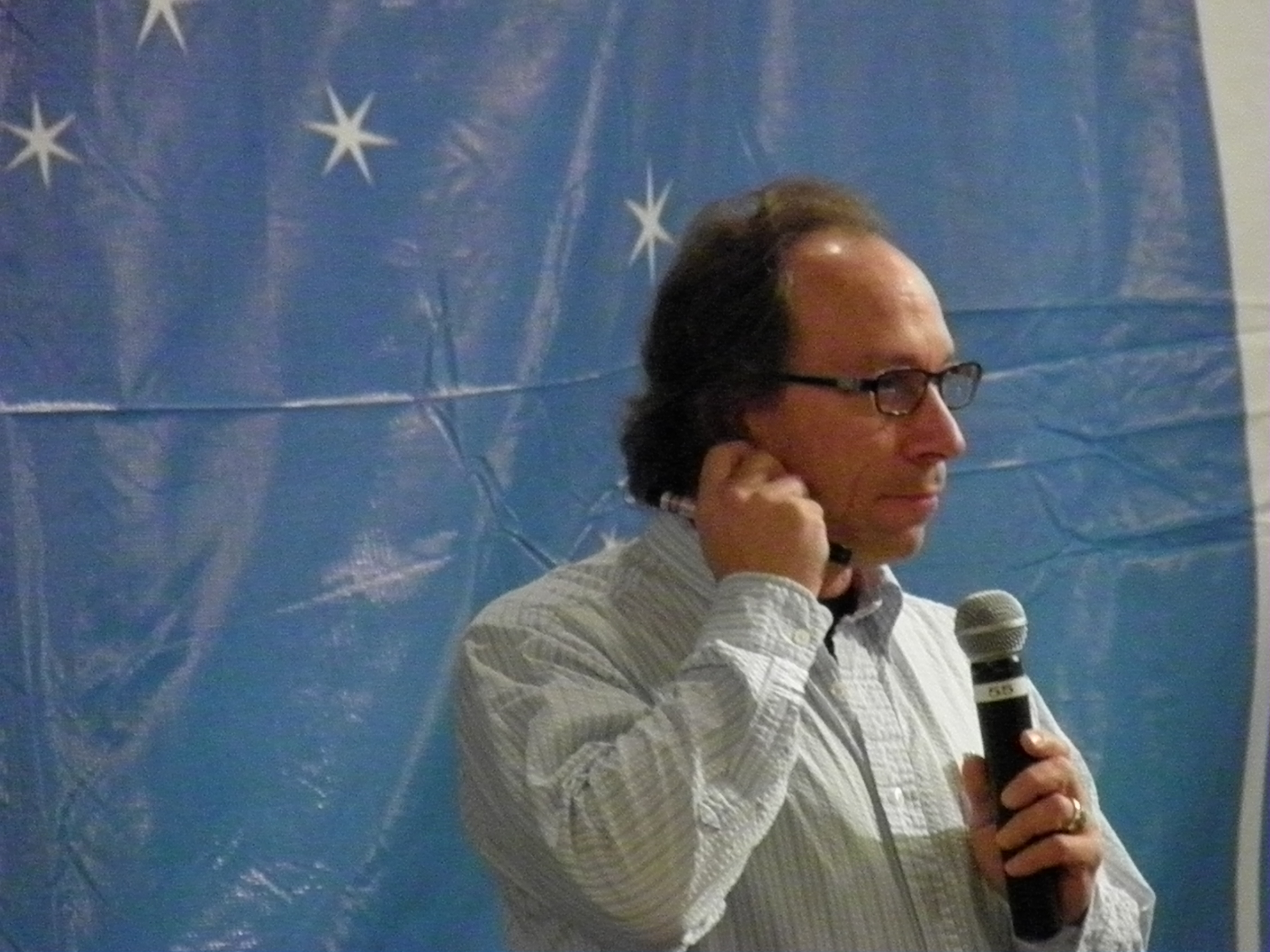 Krauss at the American Atheists Convention in Iowa in 2011.